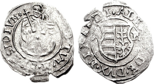 Italy, Mirandola. Alessandro I Pico della Mirandola. 1602-1637. BI 2 Bolognini (.059 g, 8h). AR Mintmaster. Ducal coat-of-arms; A-R across fields Holy Virgin seated facing, holding cross-tipped sceptre and Holy Infant.